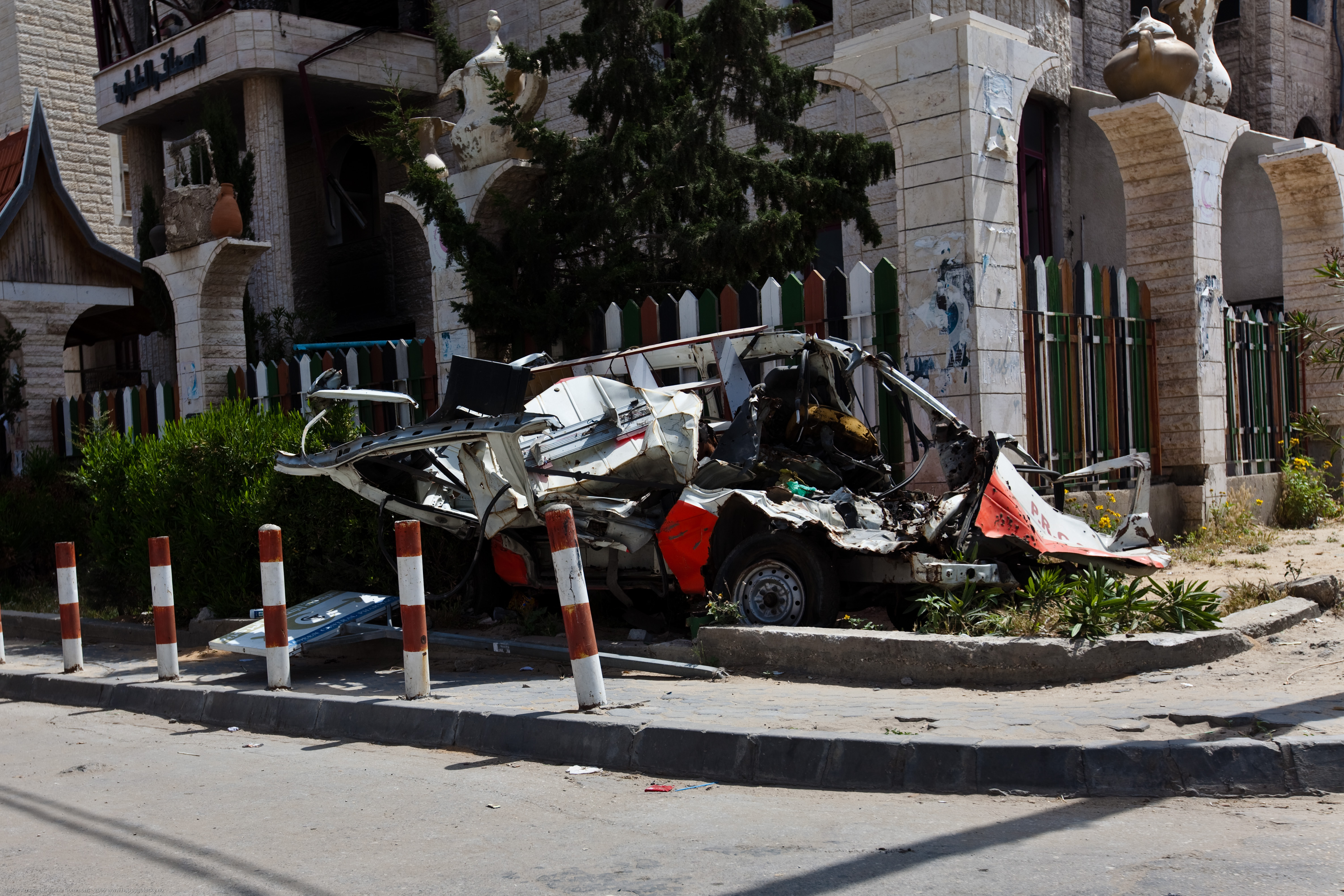 Bombed out ambulance, Gaza Strip, April 2009